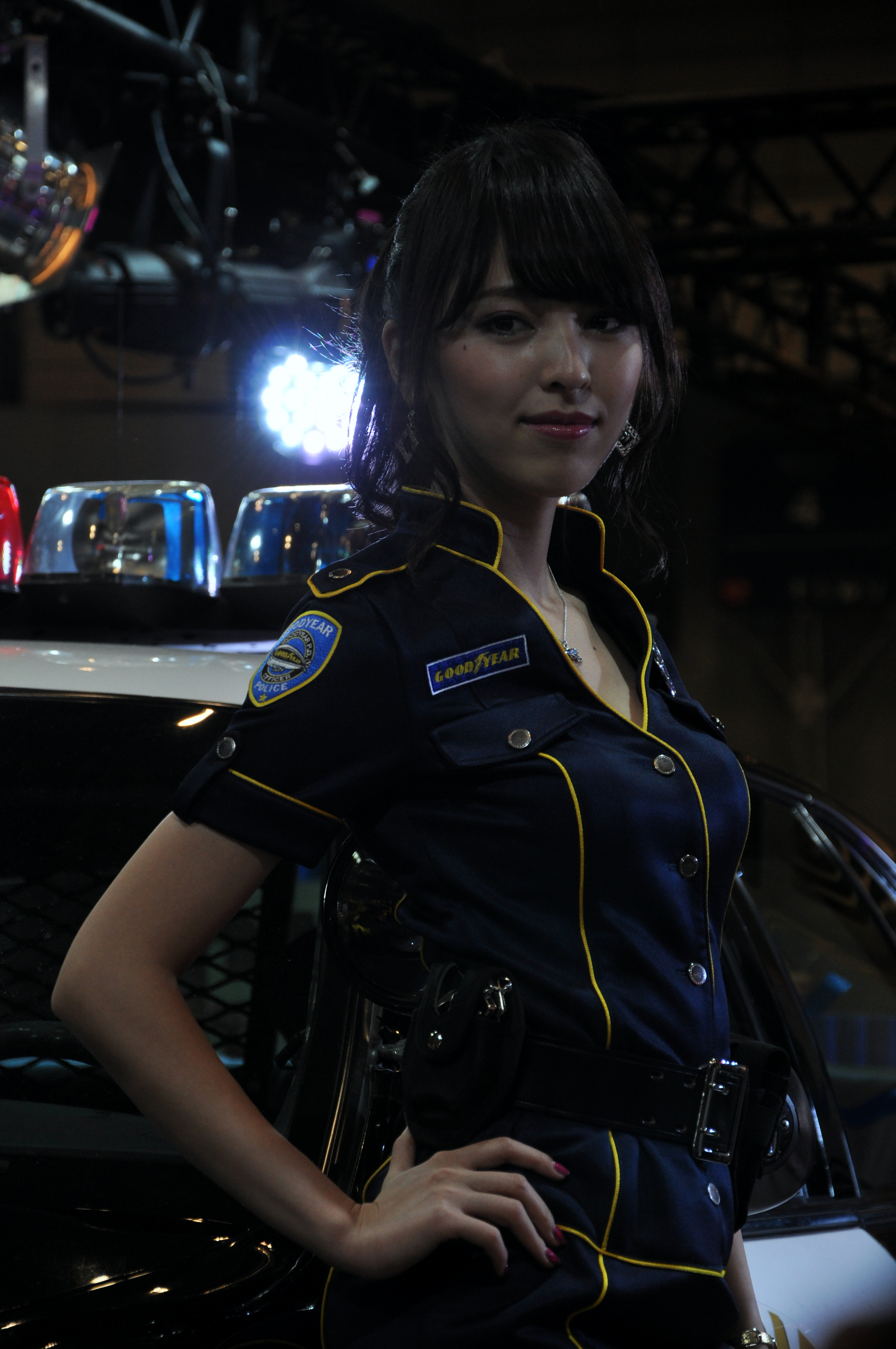 TOKYO AUTO SALON 2014 with NAPAC_078